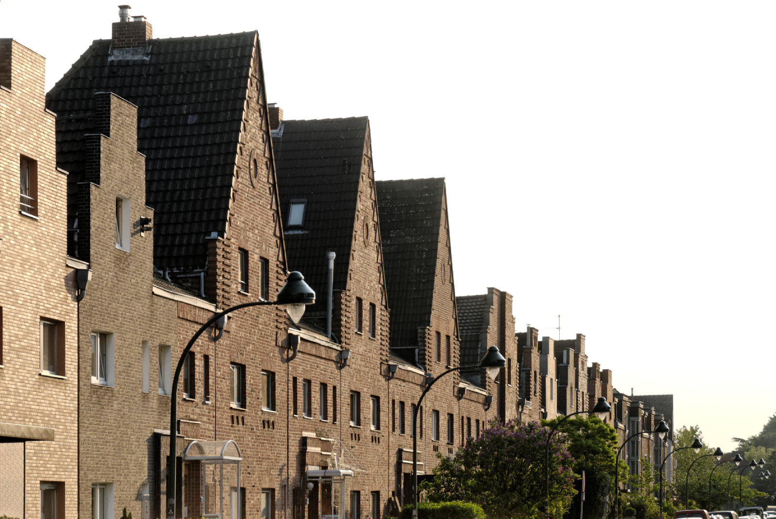 Houses Uedesheimer Straße 22 to 56 in Düsseldorf-Bilk, Germany